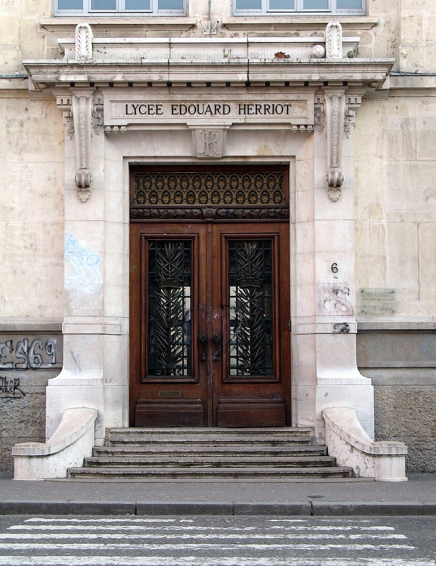 Front door of the Lycee Edouard Herriot in Lyon, France